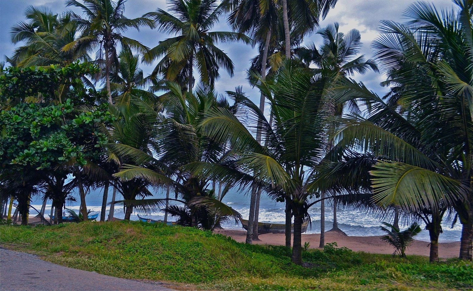 The Fante fishermen pull their boats to shore each afternoon. This is near the southern gate entrance to the University of Cape Coast, Ghana.